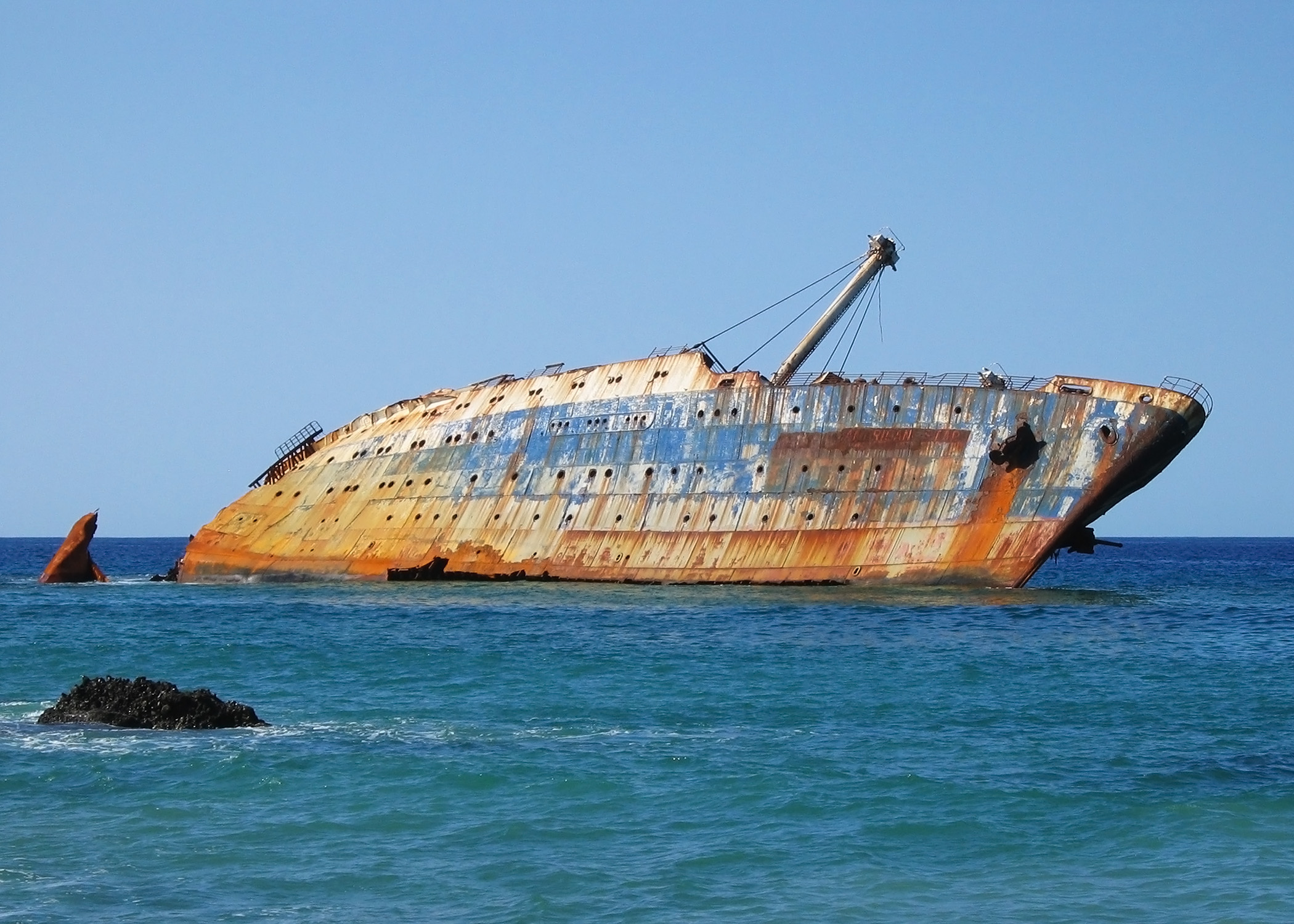 American Star on 2006/12/19, Fuerteventura/ Canary Islands